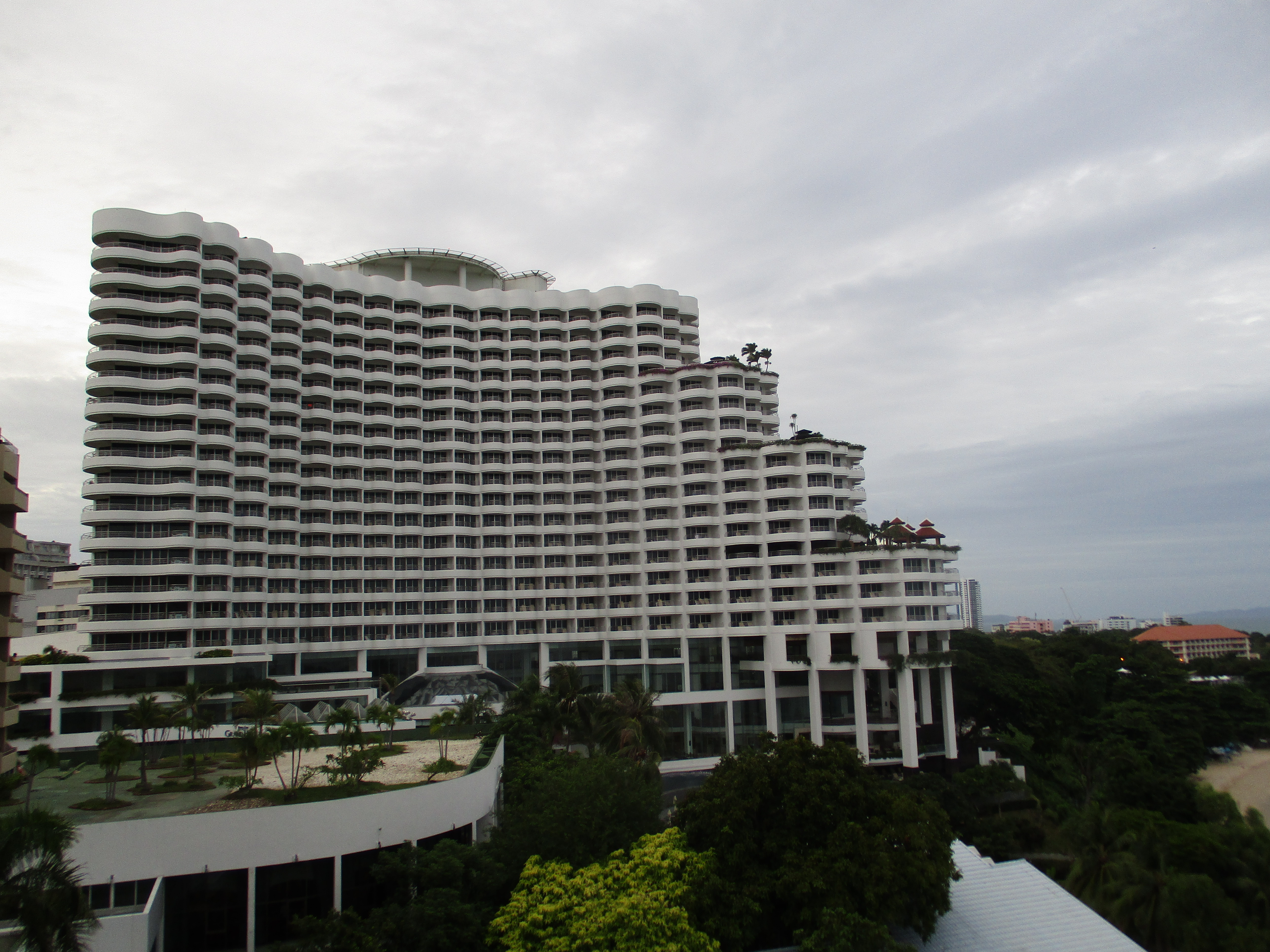 Royal Cliff Beach Pattaya, Thailand.